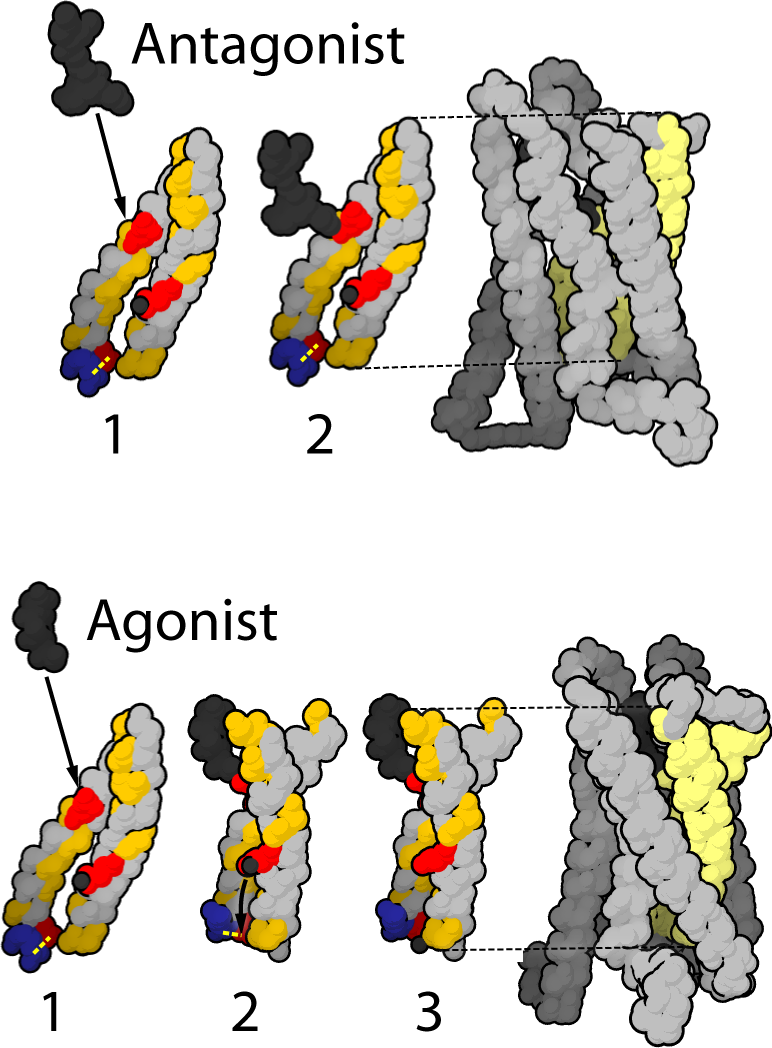 μ (Mu)-Opioid receptor. Based on OPM 2iql & 2iqo coordinates.